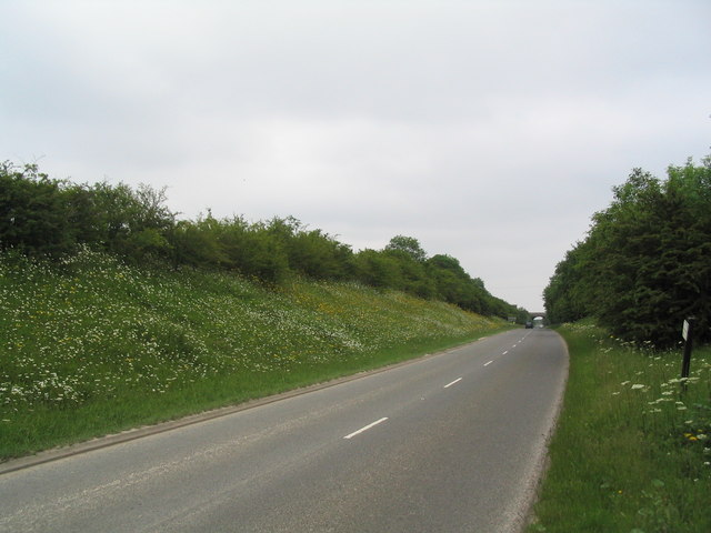 South Witham Nature Reserve Ox-eye daisies and yellow daisies colour the verges of the road from South Witham to Castle Bytham as it heads towards its underpass below the A1 (bridge in distance)